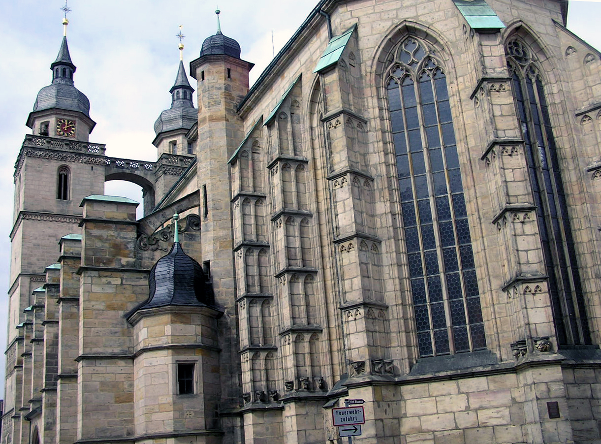 Description: Stadtkirche Bayreuth Source: selbst fotografiert Date: 5. April 2005 Author: Schubbay